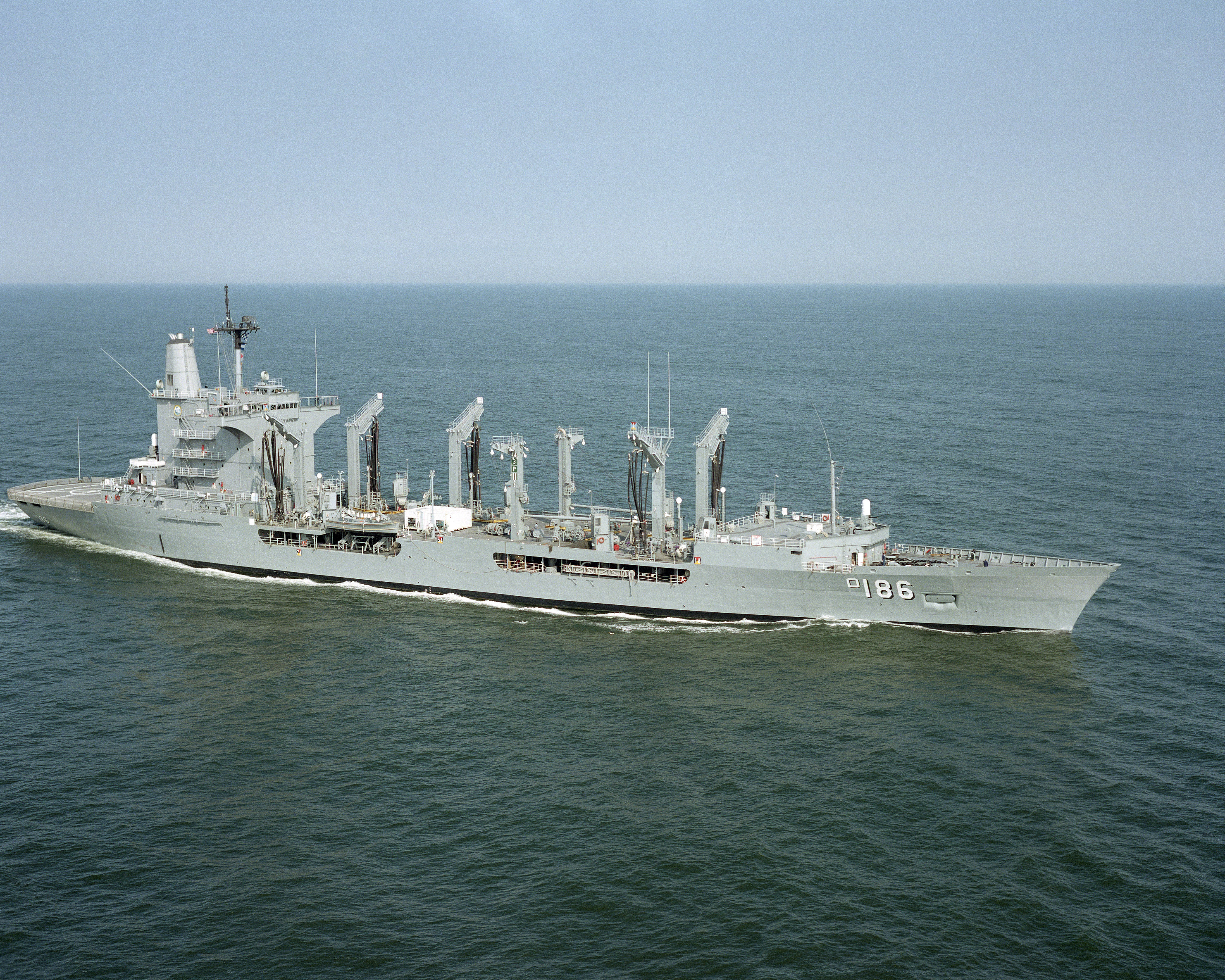 The U.S. Navy fleet oiler USS Platte (AO-186) underway on 1 October 1984.